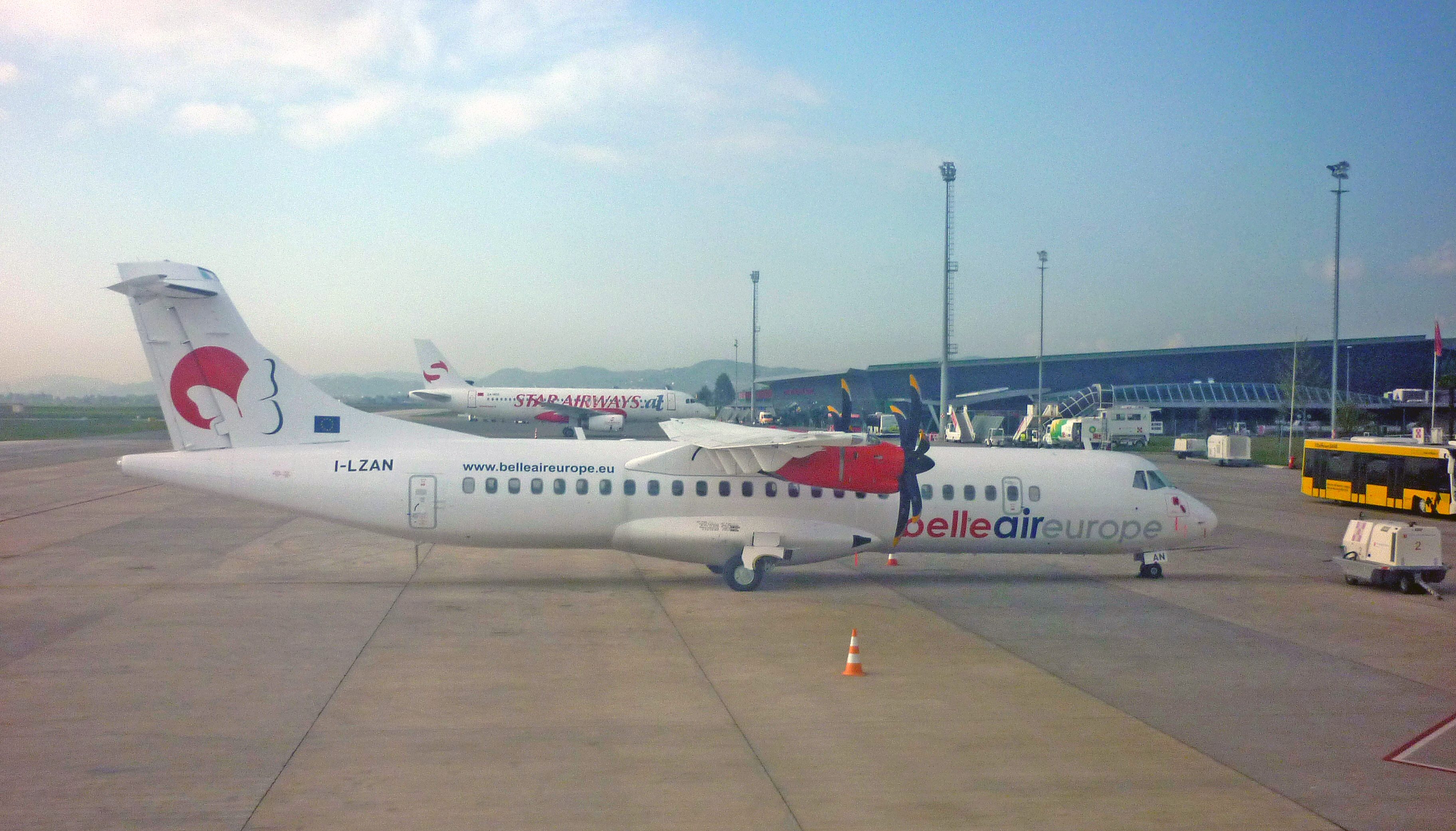 Belle Air Europe ATR 72 (I-LZAN) at Tirana International Airport.